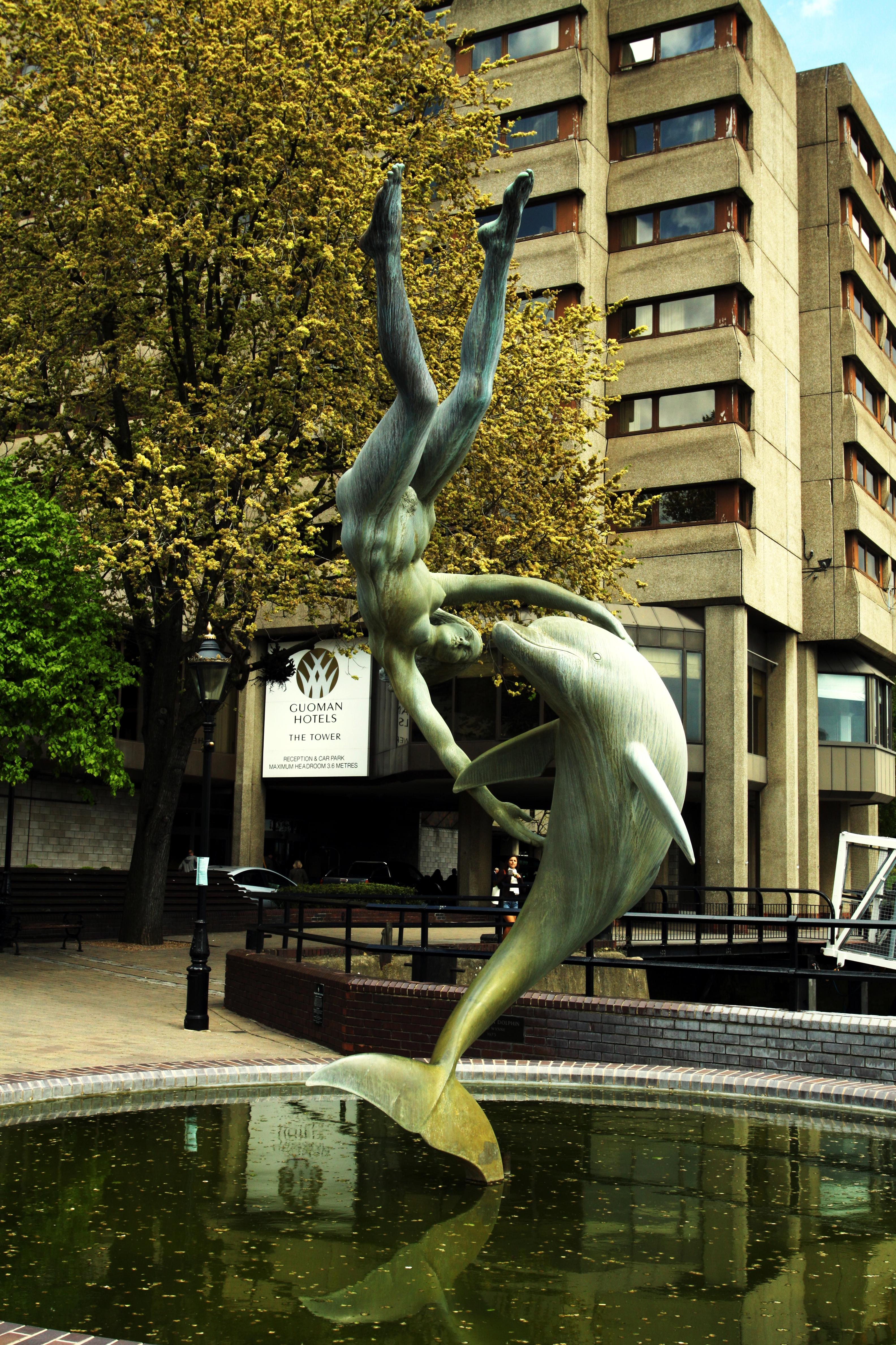 Sculpture Girl with a dolphin near Tower Bridge in the London Borough of Tower Hamlets, London, England, Great Britain The making of this file was supported by Wikimedia UK.